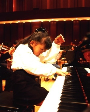 Aimi Kobayashi. Debut with the Kyushu Symphony Orchestra performing Mozart's Piano Concerto no. 26 "Coronation"